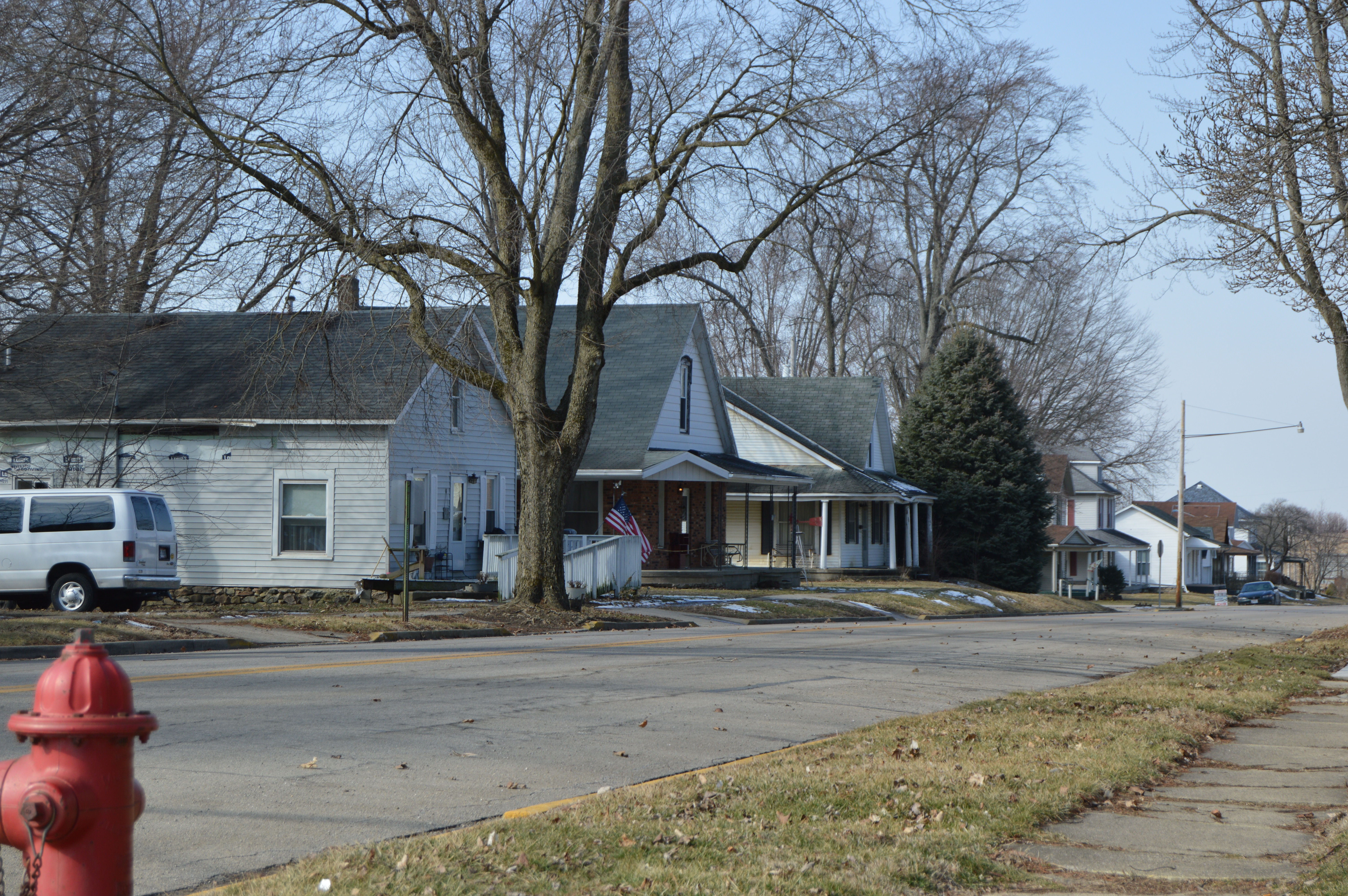 Houses on the southern side of Pike Street (State Route 55) west of Main Street in Christiansburg, Ohio, United States.